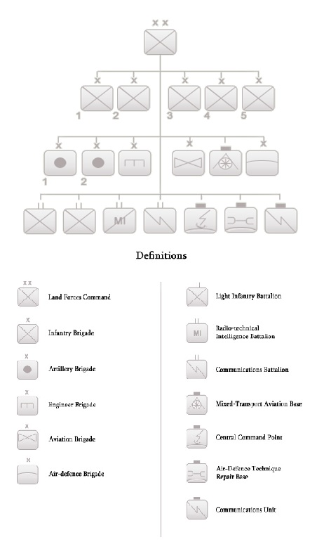 Table of the GAF which describes the actual command structure